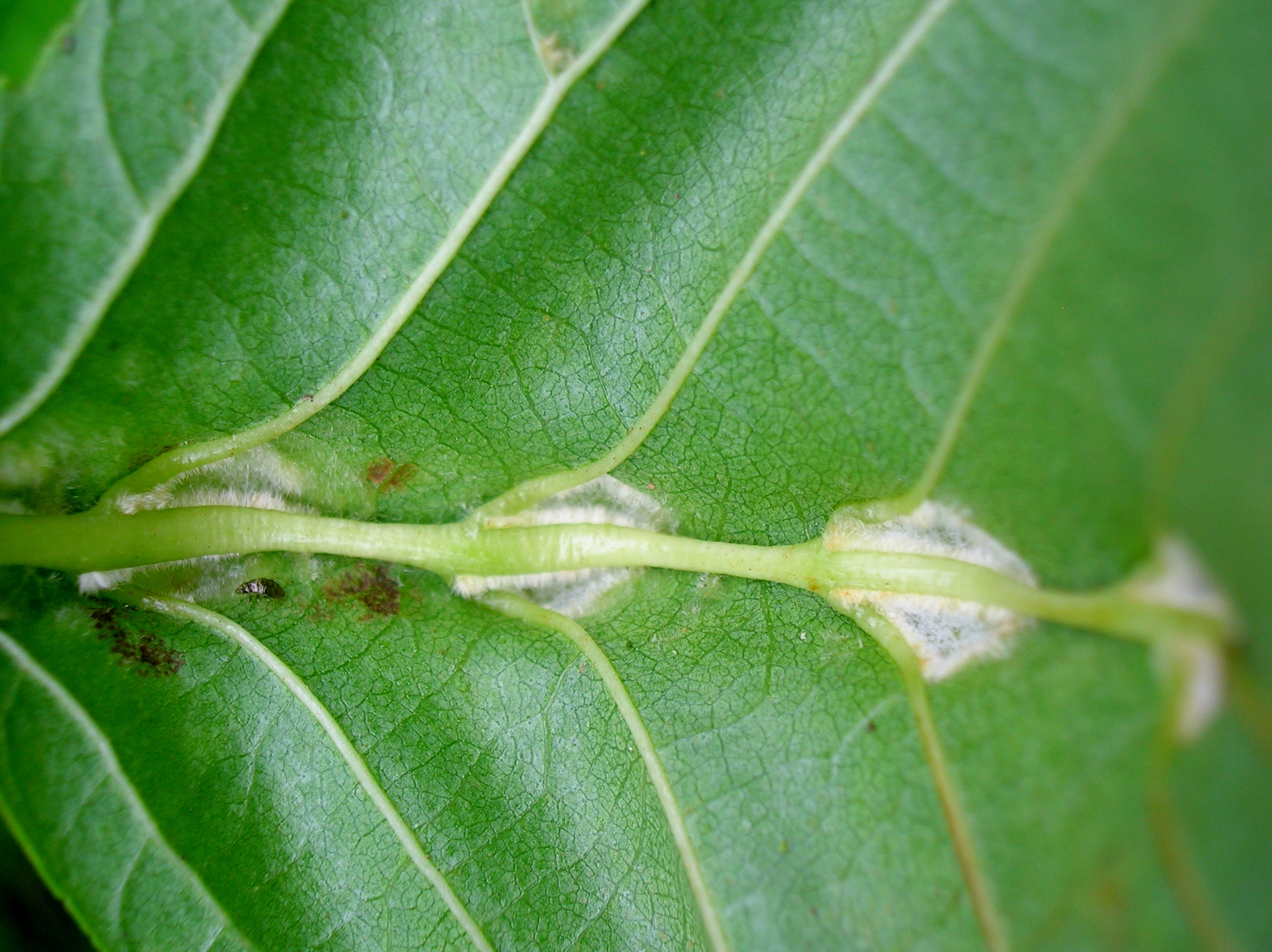 Eriophyes inangulis N on lower epidermis of an alder leaf (Alnus glutinosa), Montfode Glen, North Ayrshire, Scotland.